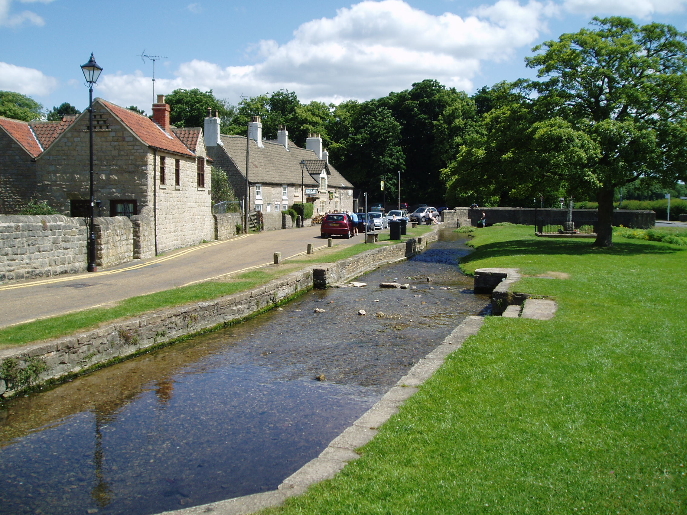 The river Poulter at Langwith, Derbyshire, England